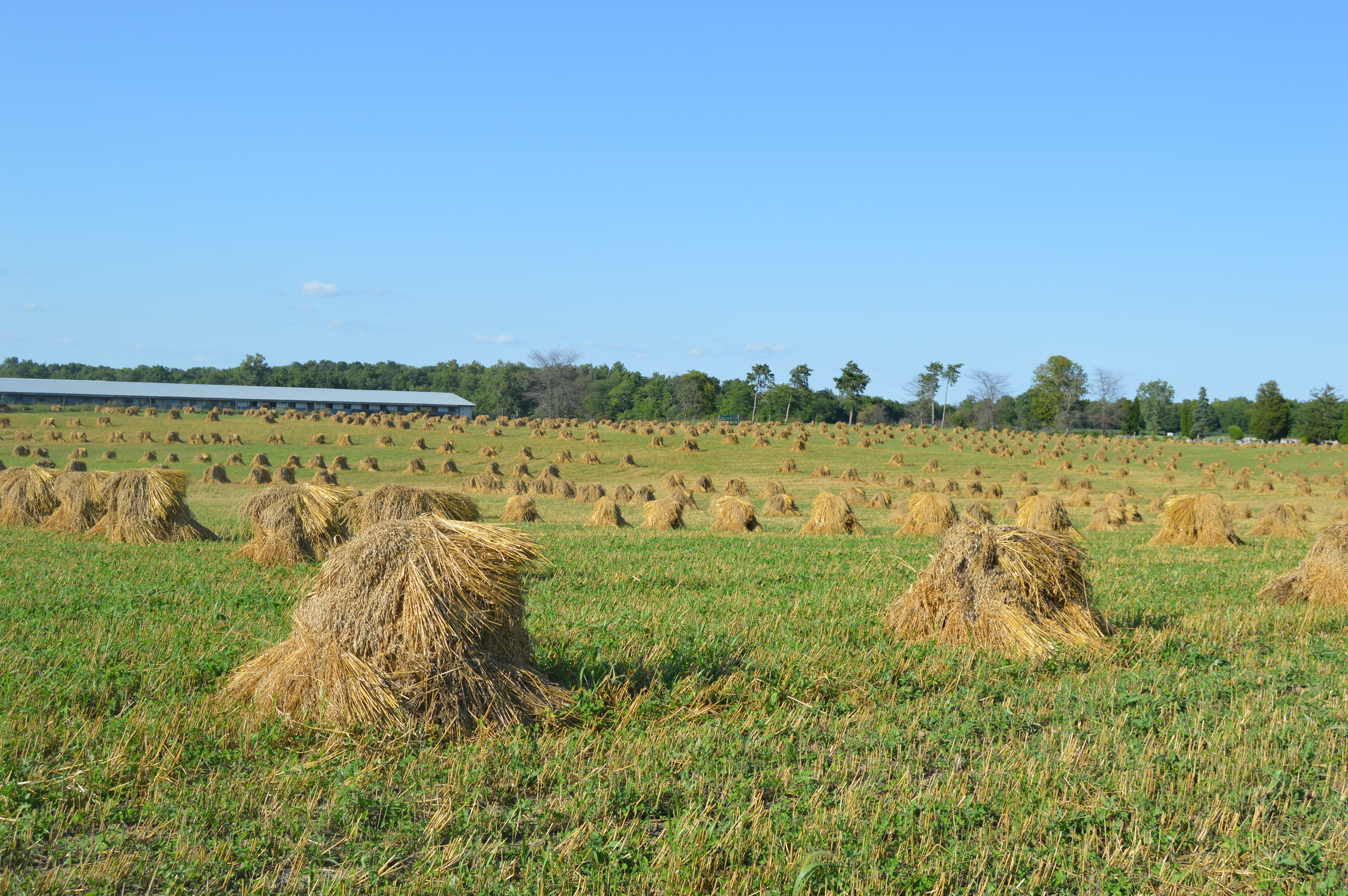 Overview of a recently harvested Amish farm field, with the wheat up in shocks, along State Route 273 west of Mount Victory in Hale Township, Hardin County, Ohio, United States. Because the Amish do not have mechanized harvesting equipment, so they (unlike the "English" all around them) bind their harvest in shocks.